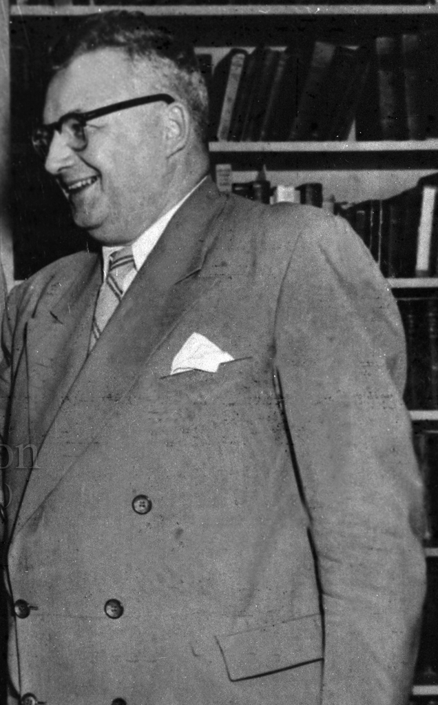 Murdoch Maxwell MacOdrum in October 1951. Image cropped from File:Birbal Sahni's works presented to M.M. MacOdrum.jpg